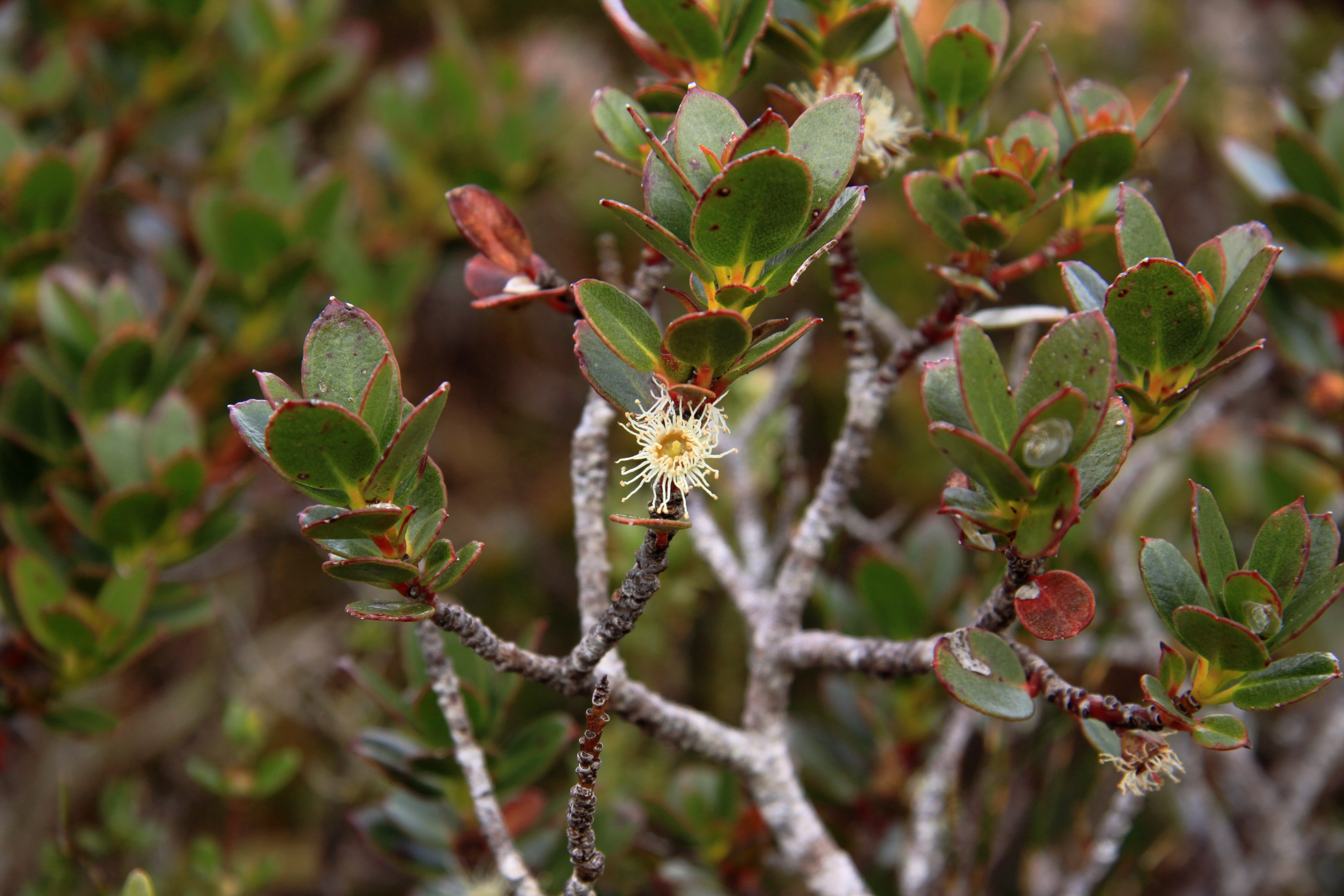 Tasmanian endemic Eucalyptus vernicosa in flower, photo taken at "The Boomerang," opposite Mt. Bobs in the South West National Park. Taken on 6th of December, 2011.